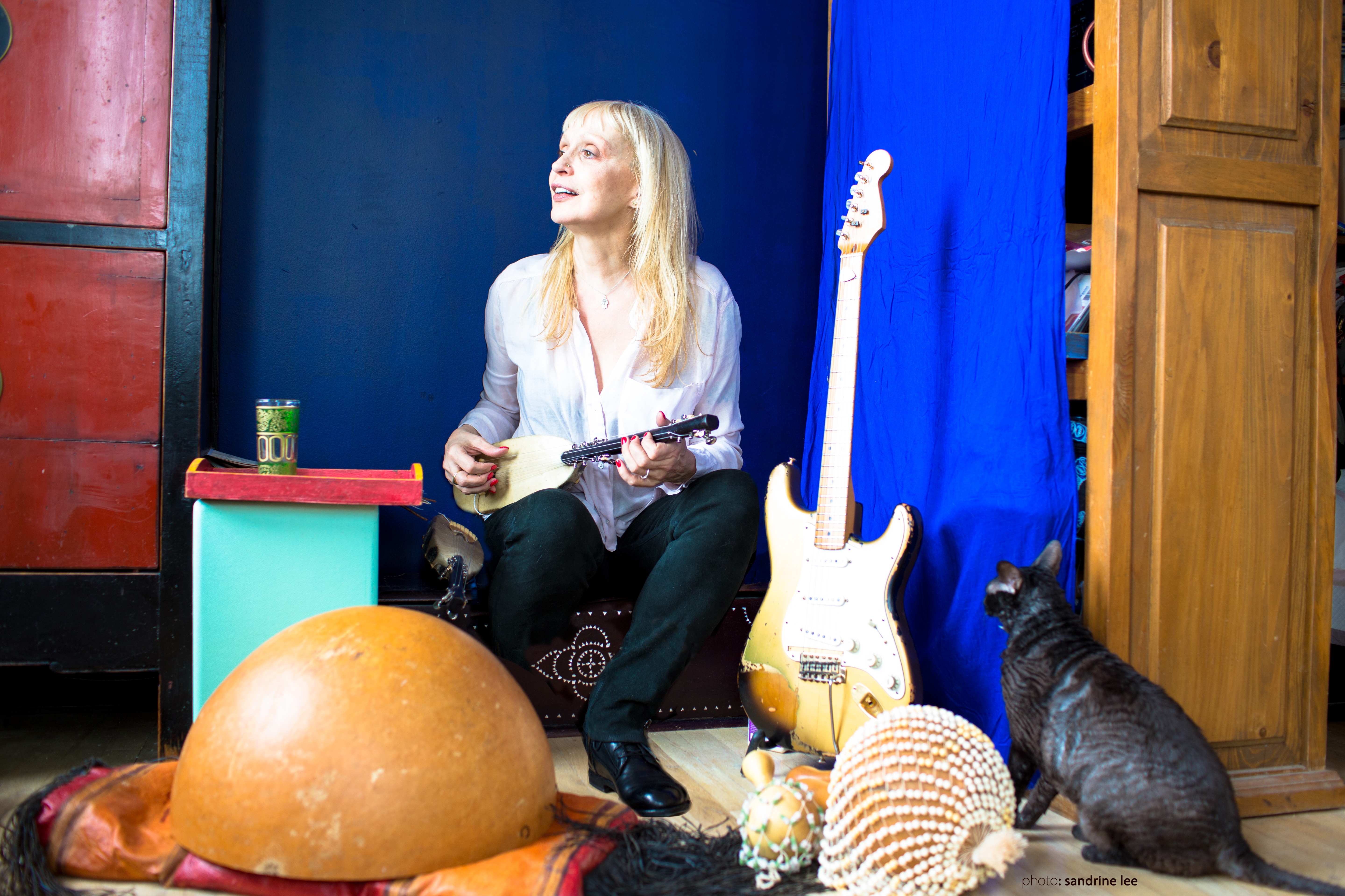 Leni Stern